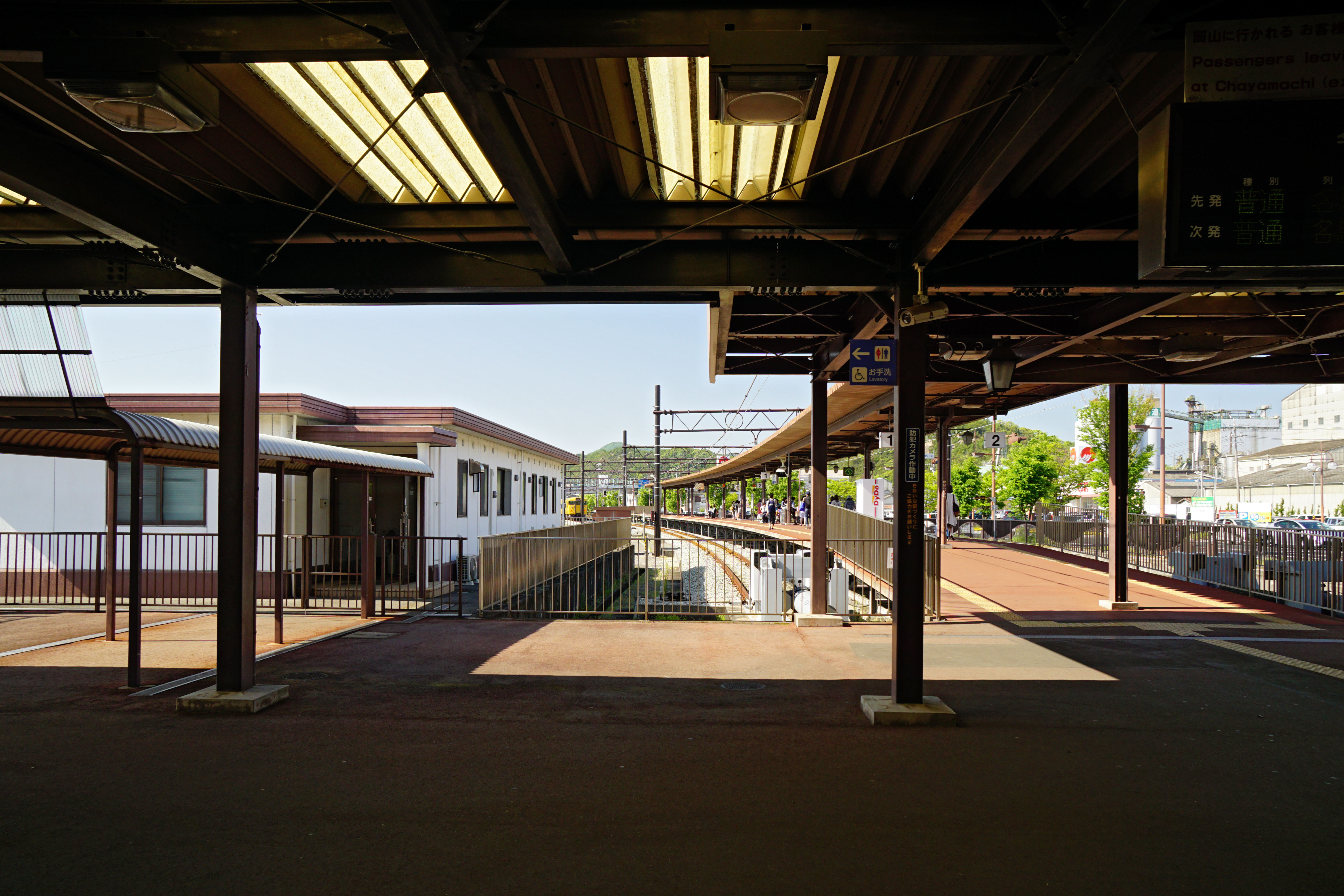 Uno Station in Tamano, Okayama prefecture, Japan.